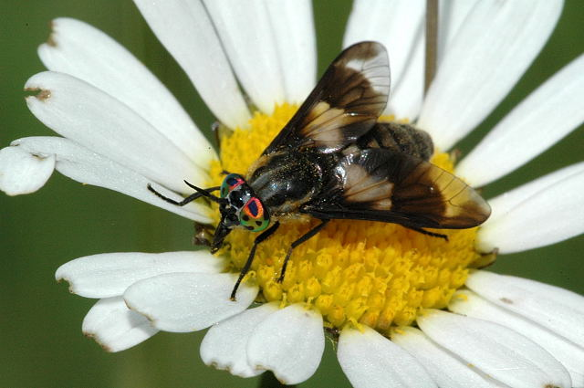 Picture taken in Commanster, Belgian High Ardennes . Species: female Chrysops relictus